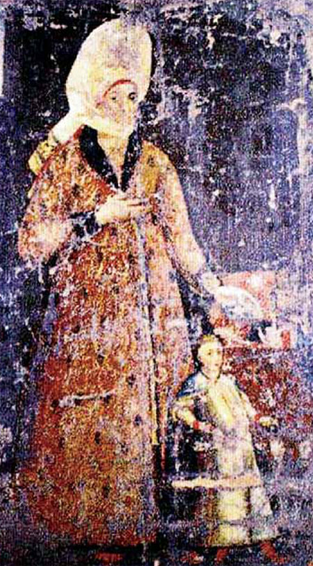 Feodosiya Paliy (nobility)